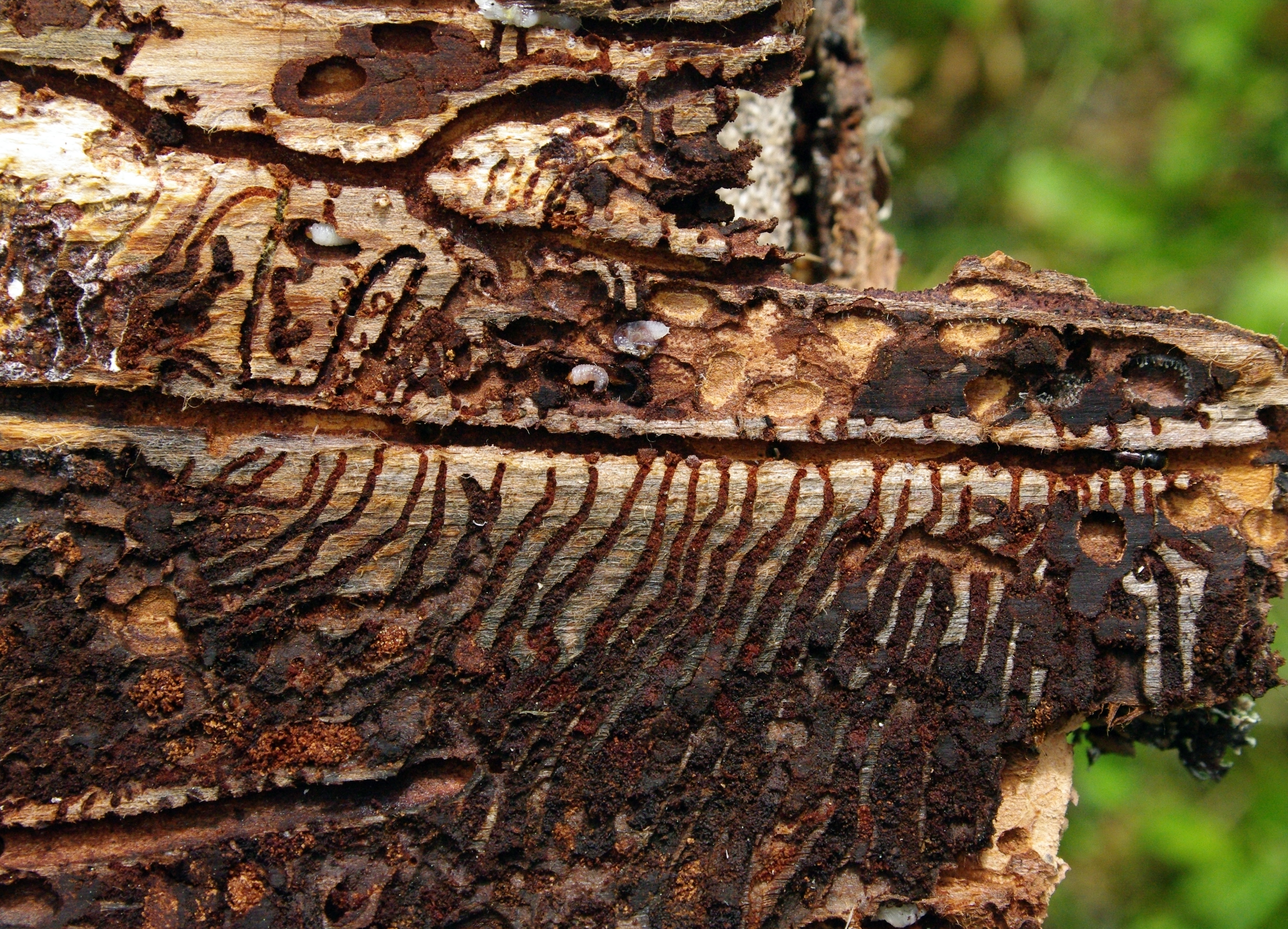 European spruce bark beetles (Ips typographus) making their way in wood.